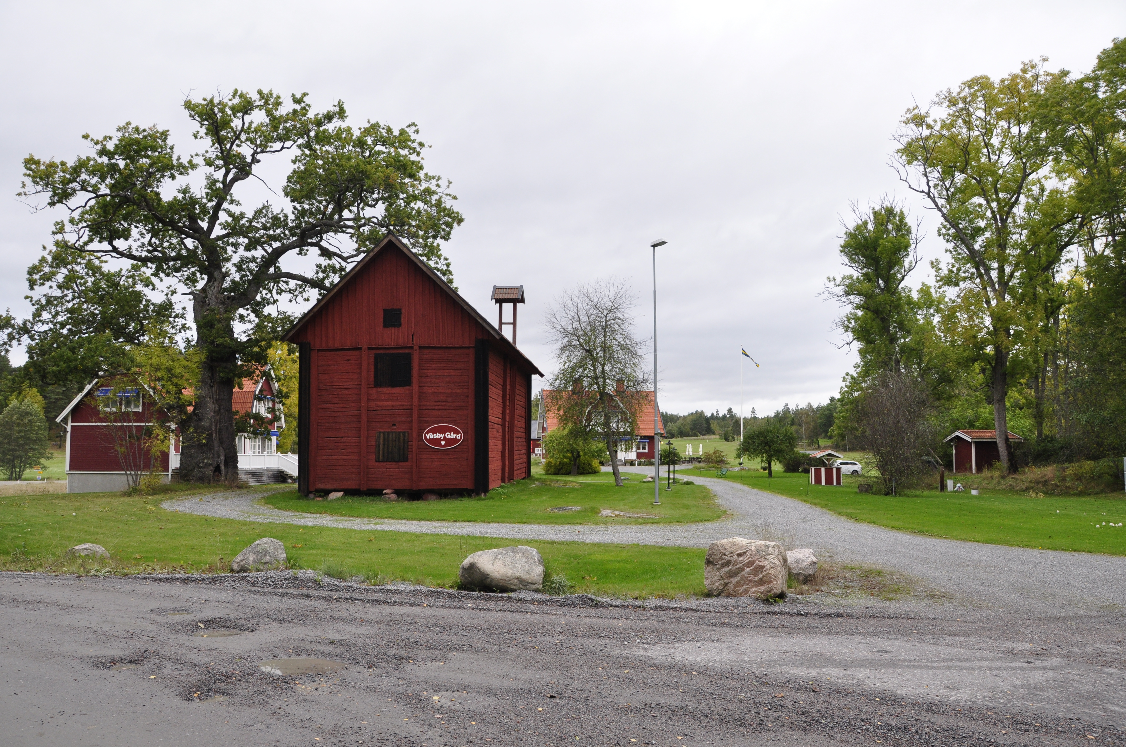 Väsby manor on the island Ljusterö, Sweden